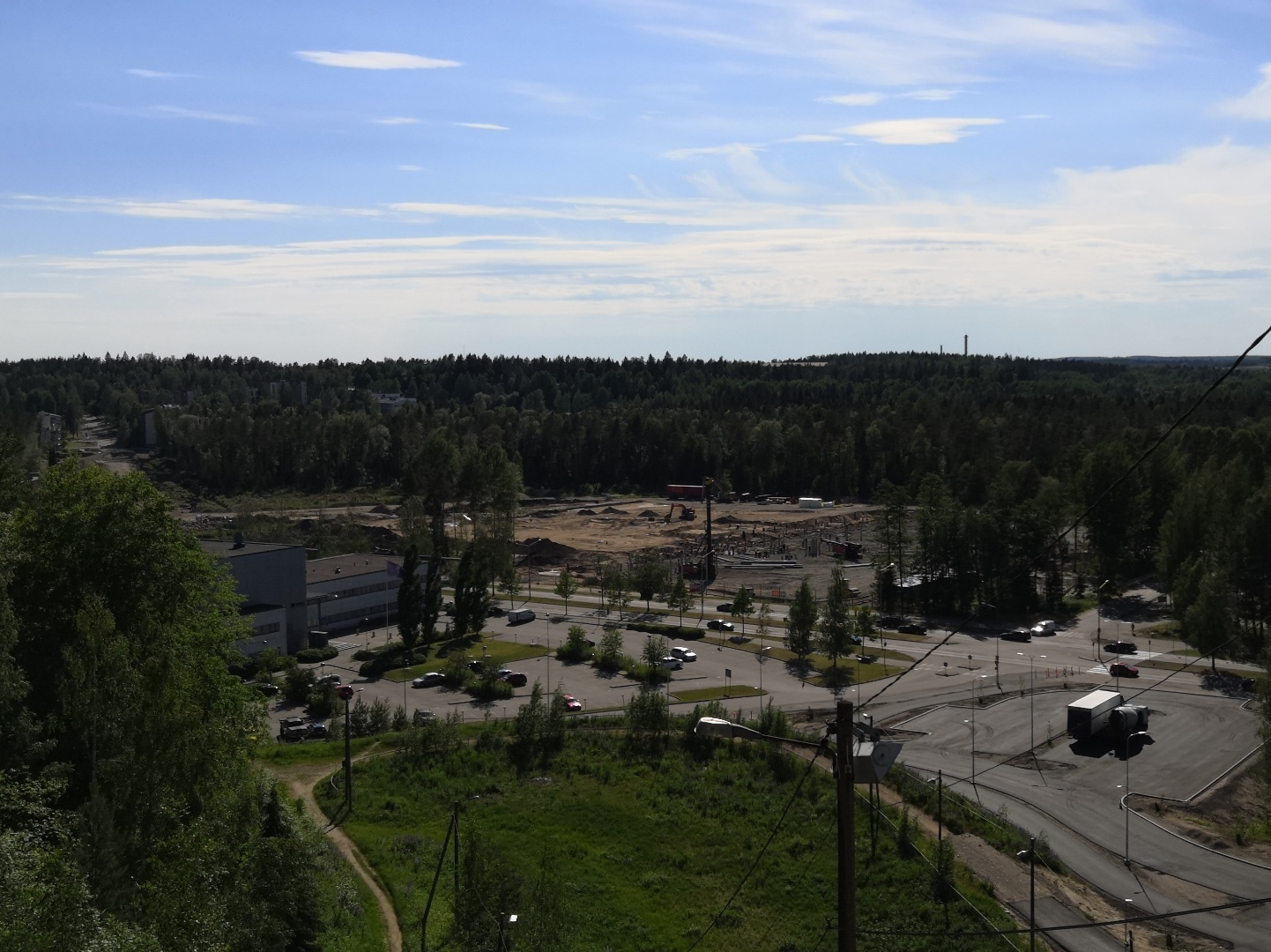 Kouvolan Ratamo-keskuksen rakennustyömaa kesäkuussa 2019 Palomäeltä katsottuna